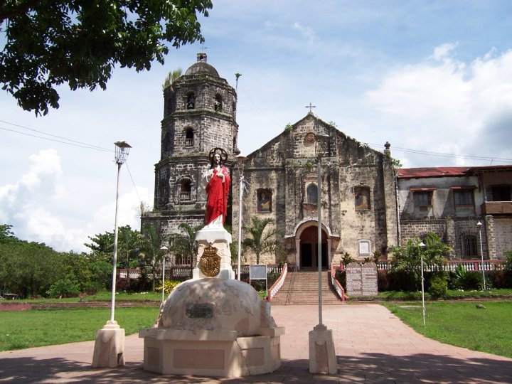 the St. Mary Magdalene Parish Church